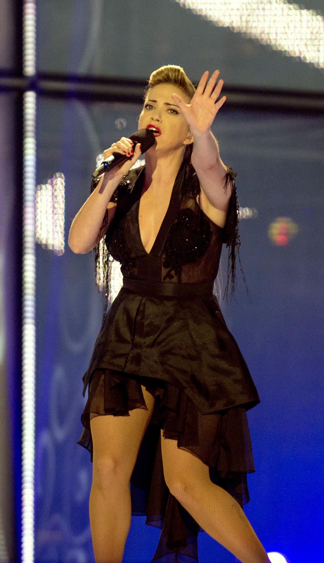 Mei Finegold representing Israel with the song "Same Heart" during the first dress rehearsal of the second semi final of the Eurovision Song Contest 2014 in Copenhagen. (Help translate this text)